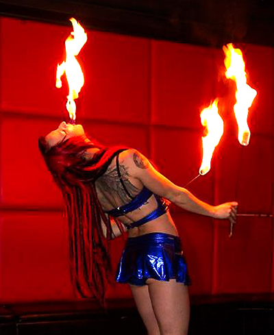 Sasha the Fire Gypsy performing a Fire Eating act at a bar in New York City. She is shown performing a vapor hold trick.